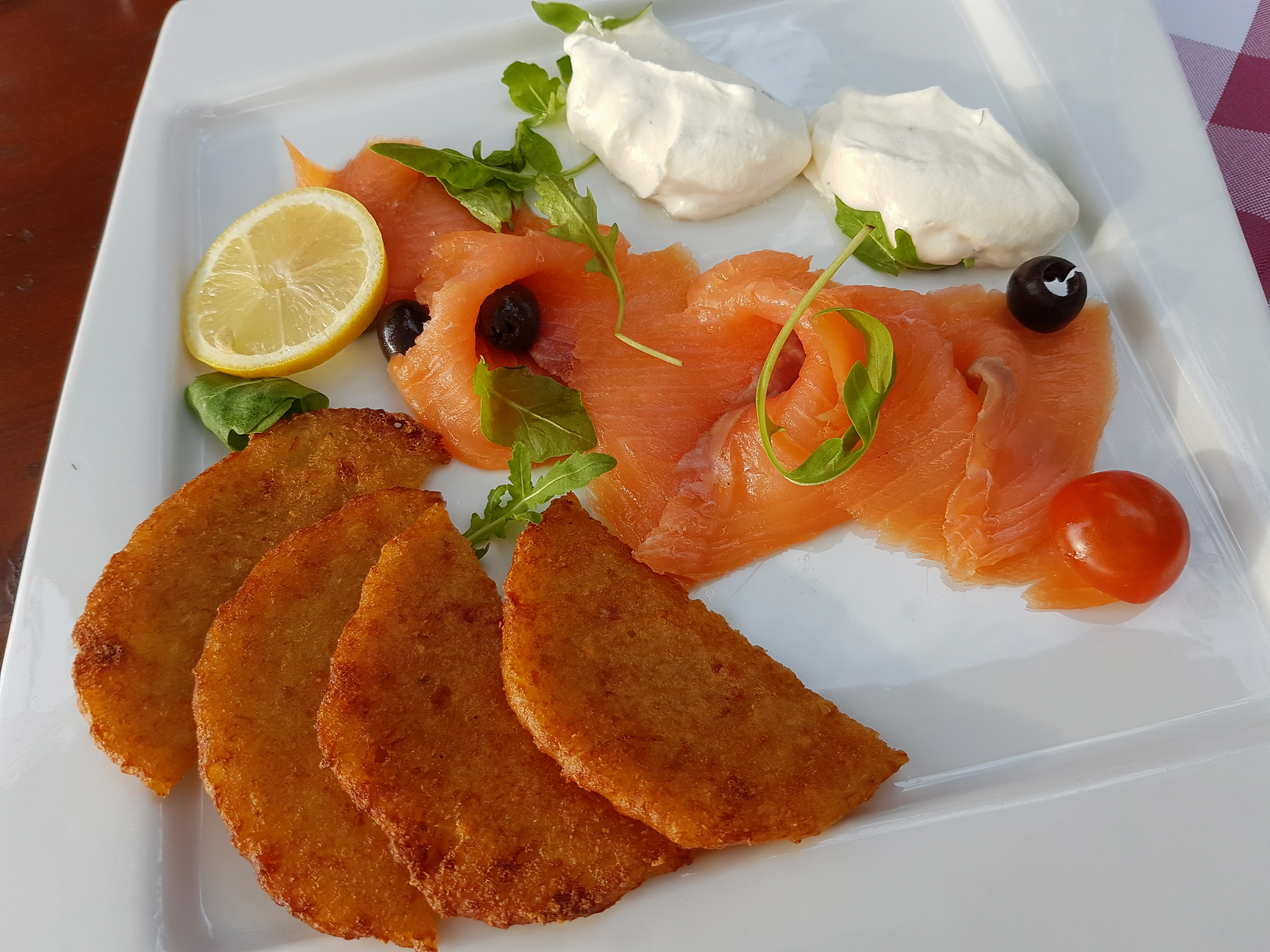 Smoked salmon, potato buffer, cream horseradish. Arugula, olives and half cocktail tomatoes for decoration. Photographed at the Schweizer Hof in Kulmbach.